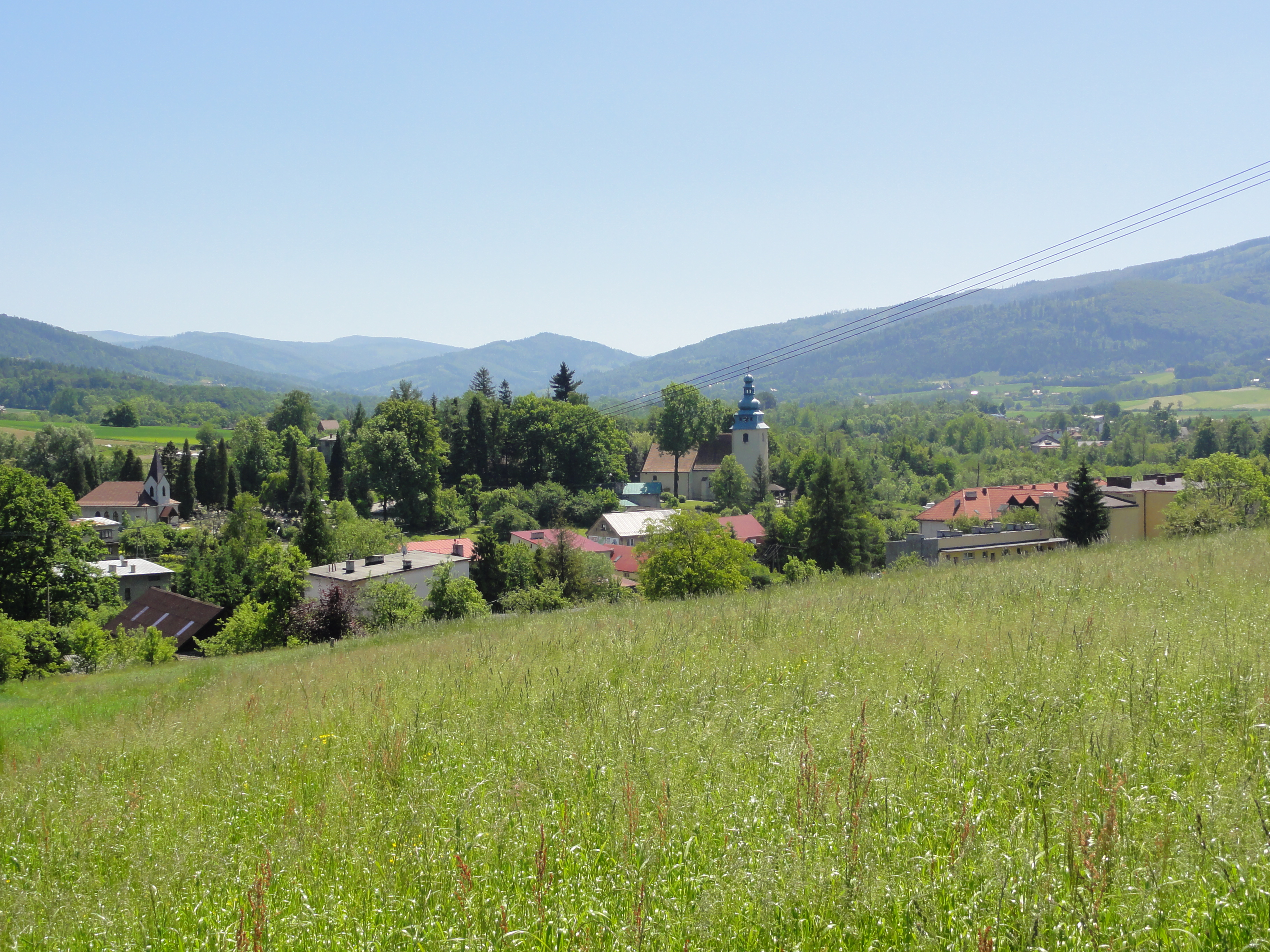 Centre of the Górki Wielkie village as seen from Spacerowa Street